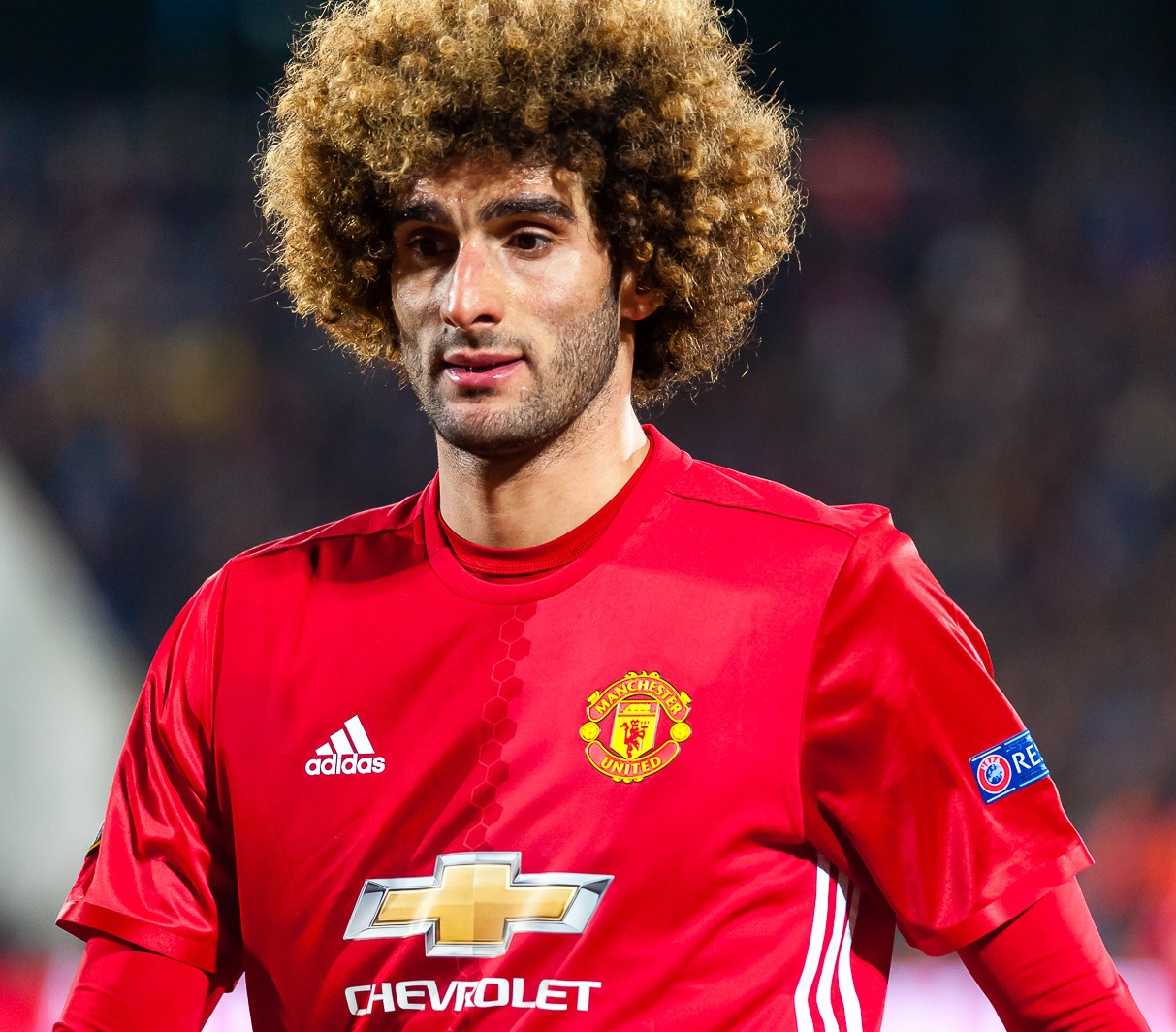 Manchester United footballer Marouane Fellaini in 2017 UEFA Europa league match in Rostov, Russia.